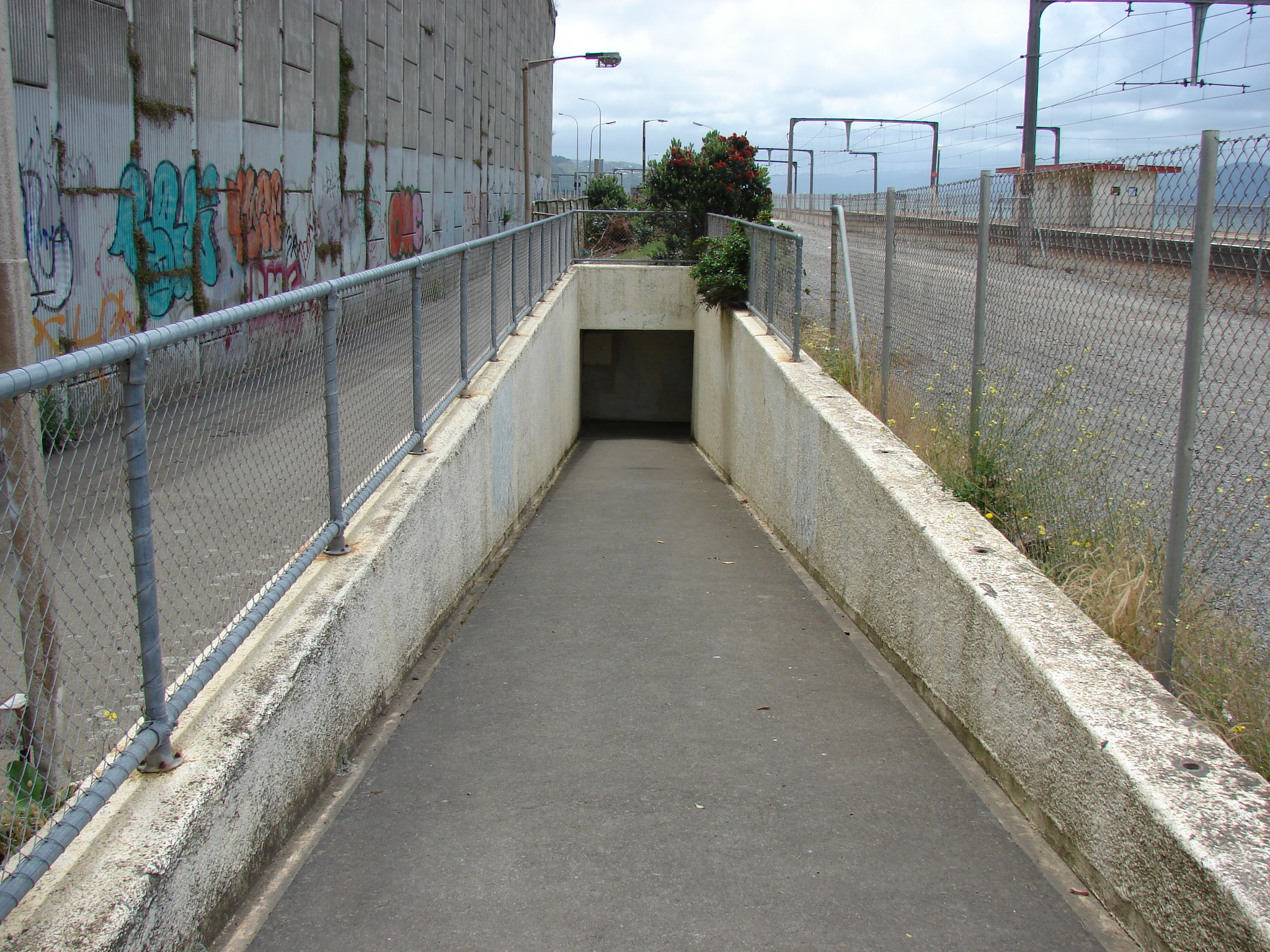 Walkway from Hutt Road and subway entrance to Ngauranga railway station. Photographed by Matthew25187 on 2007-12-24.